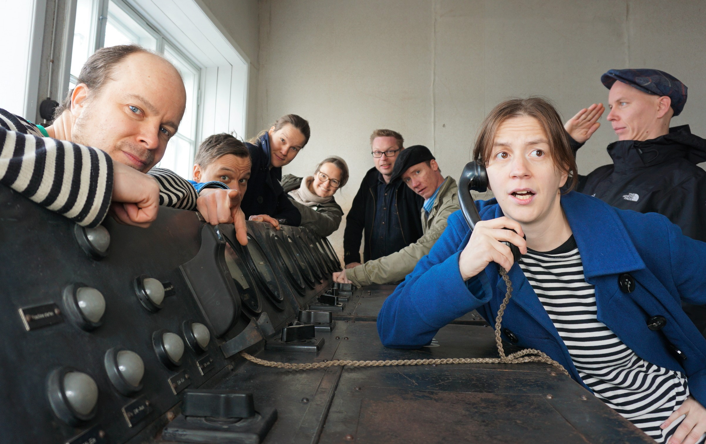 Pressphoto of Maria Gasolina band in Helsinki 2015